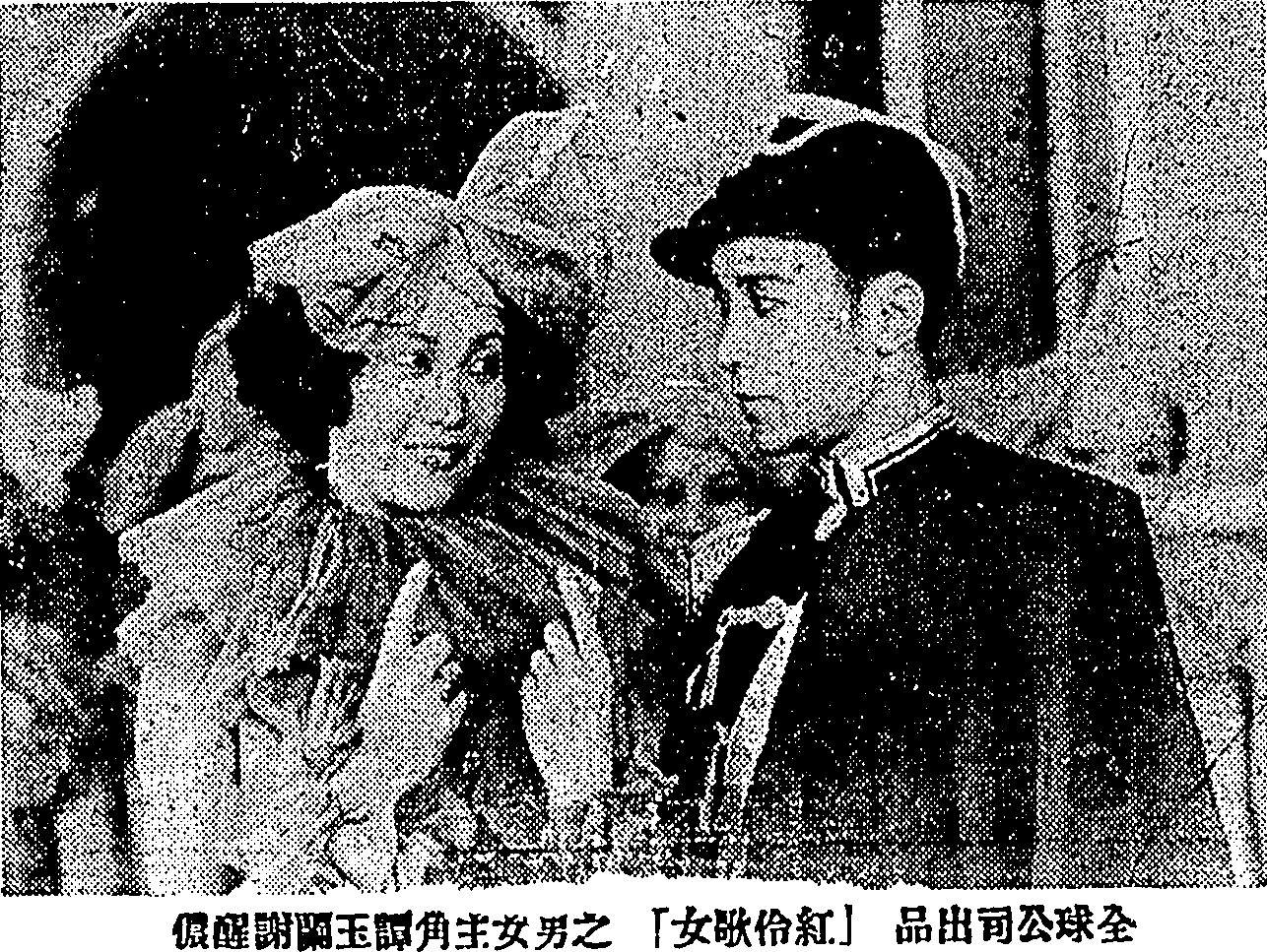 Mr. Tse Sing Nong and Ms. Tam Yuk Lan, a scene on Hong Kong Cantonese Musicals Movie "Opera Stars and Song Girls (紅伶歌女)" in 1935. 中文（香港）: 1935年香港粵語歌舞片《紅伶歌女》裡的謝醒儂（Tse Sing Nong）及譚玉蘭（Tam Yuk Lan）。